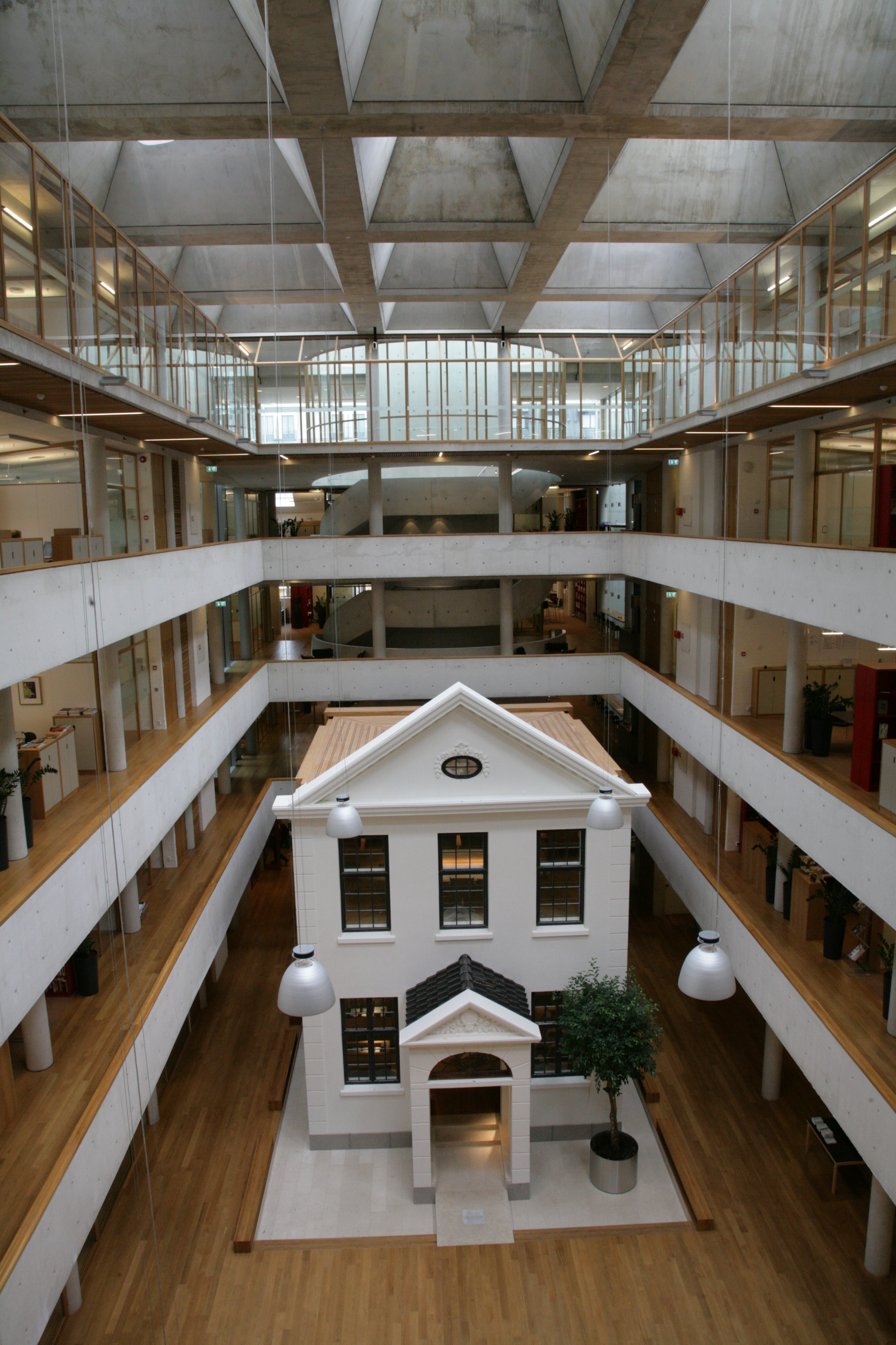 The central hall in the Gyldendal house in Oslo. Gyldendal Norsk Forlag is a publishing house in Oslo. This is their headquarter. The house within the central atrium is called Danskehuset (the Danish House), after the house of the original Danish publishing house Gyldendal. Architect was Sverre Fehn